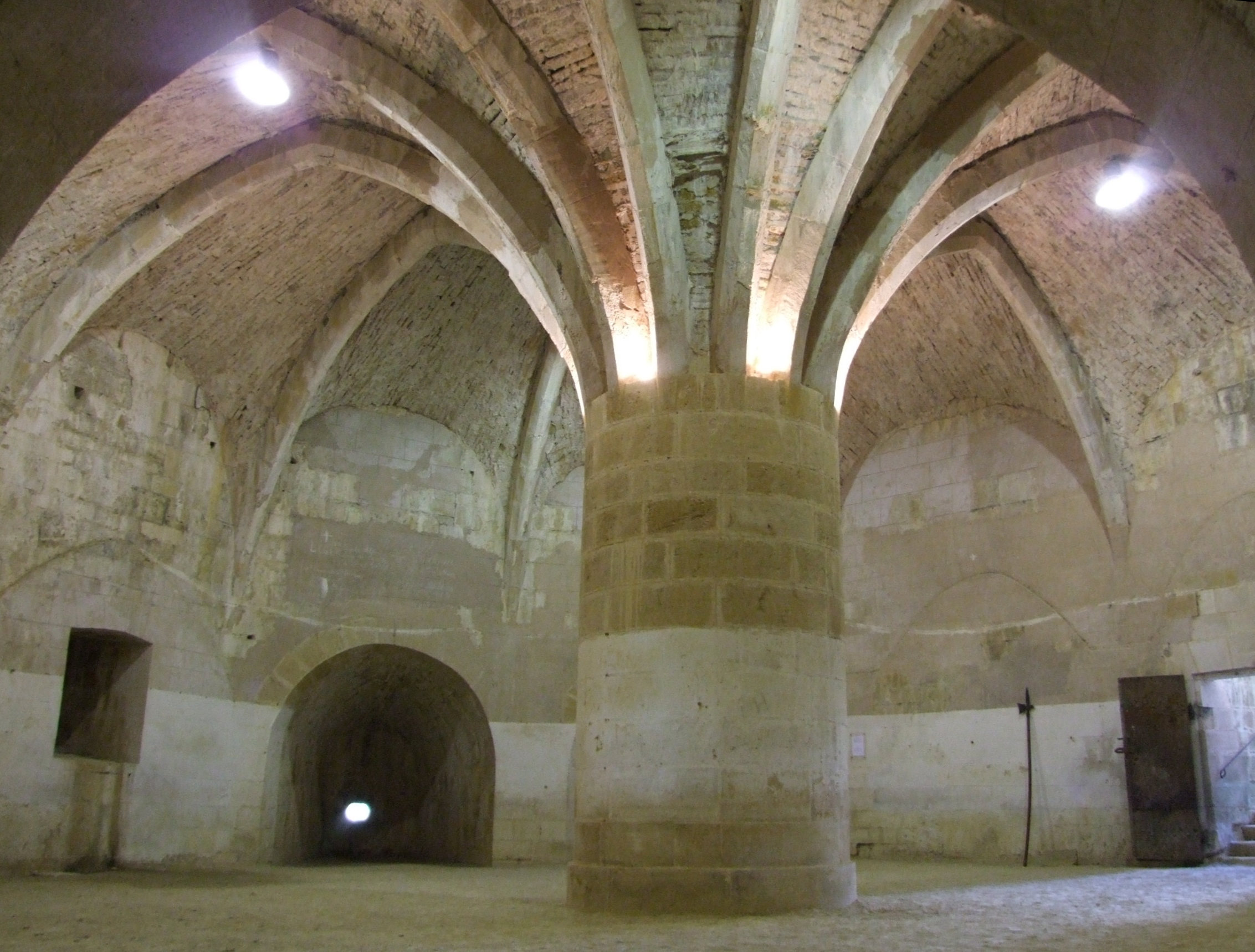 Tower of Navarre and Orval, Langres, FRANCE